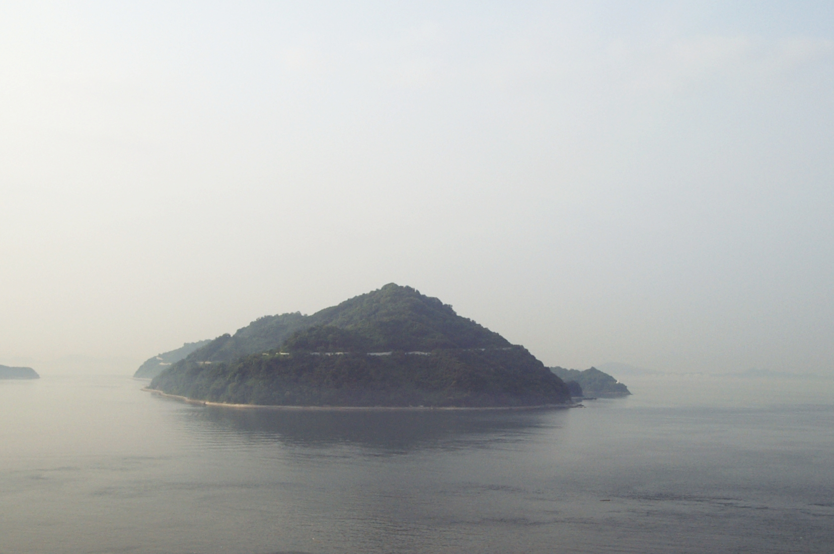 Ogeshima in Imabari, Ehime pref., Japan.